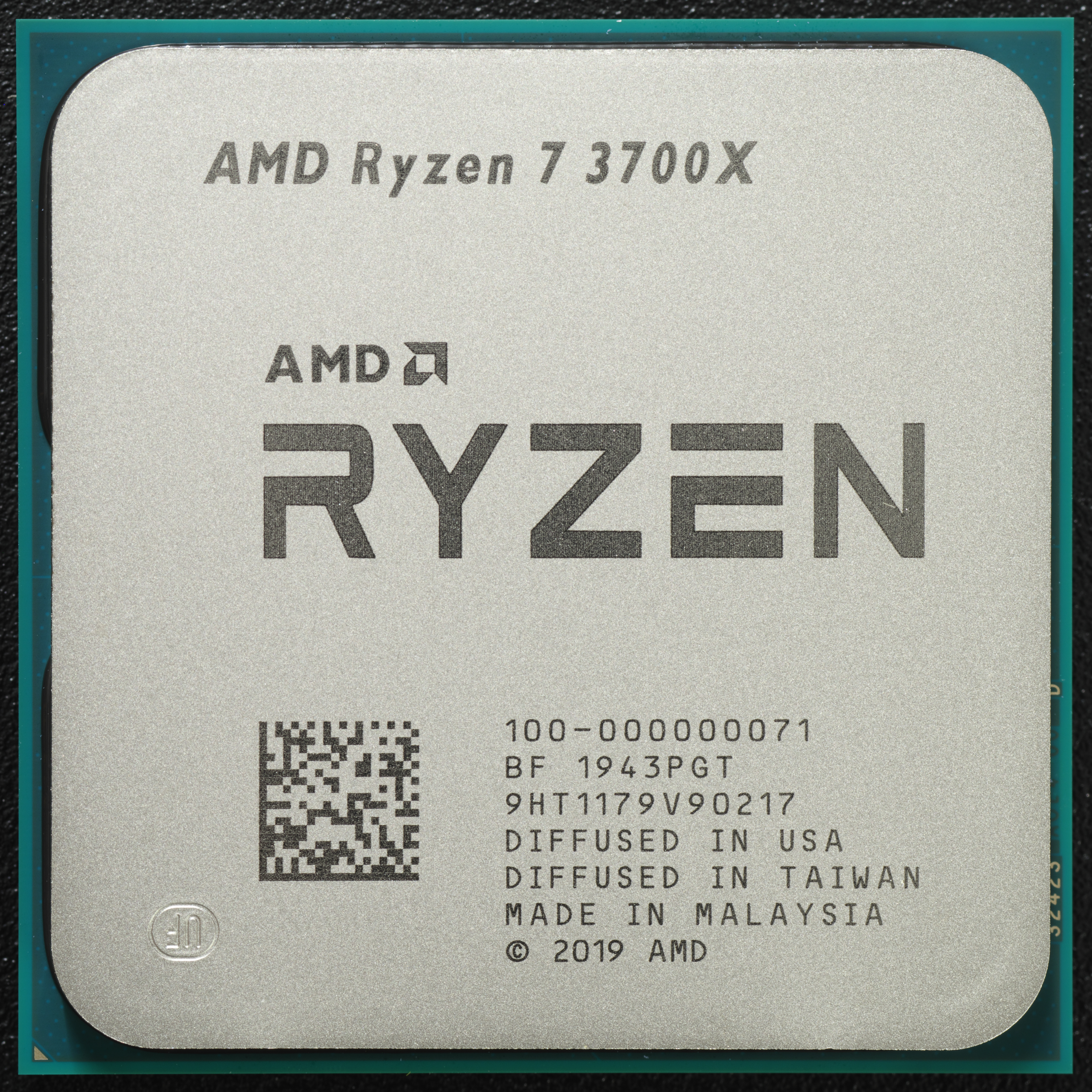 AMD Ryzen 7 3700K 'Matisse". Top side. Socket AM4.